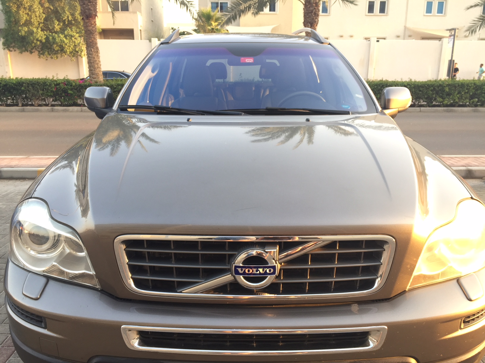 Volvo xc90 2012 Update